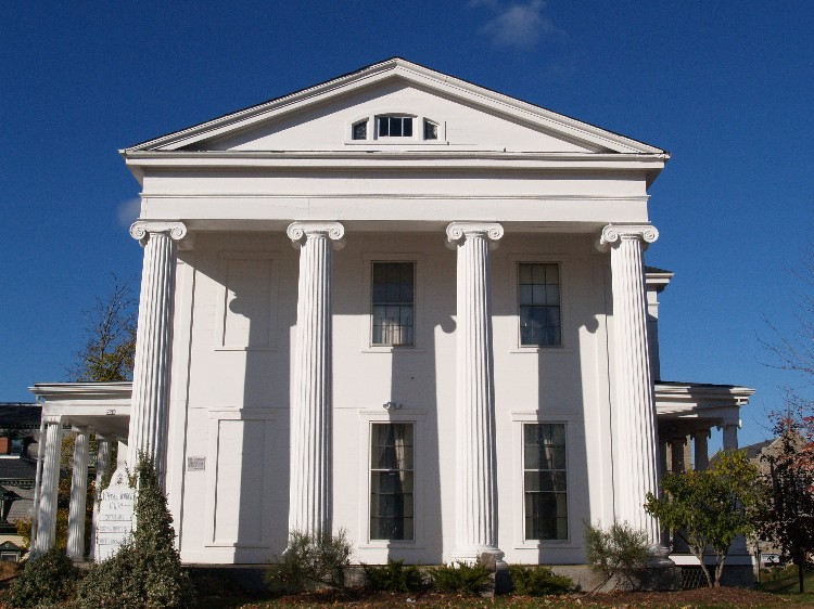 Jefferson Borden House (c.1840), 386 High Street, Fall River, Massachusetts; part of the Highlands Historic District